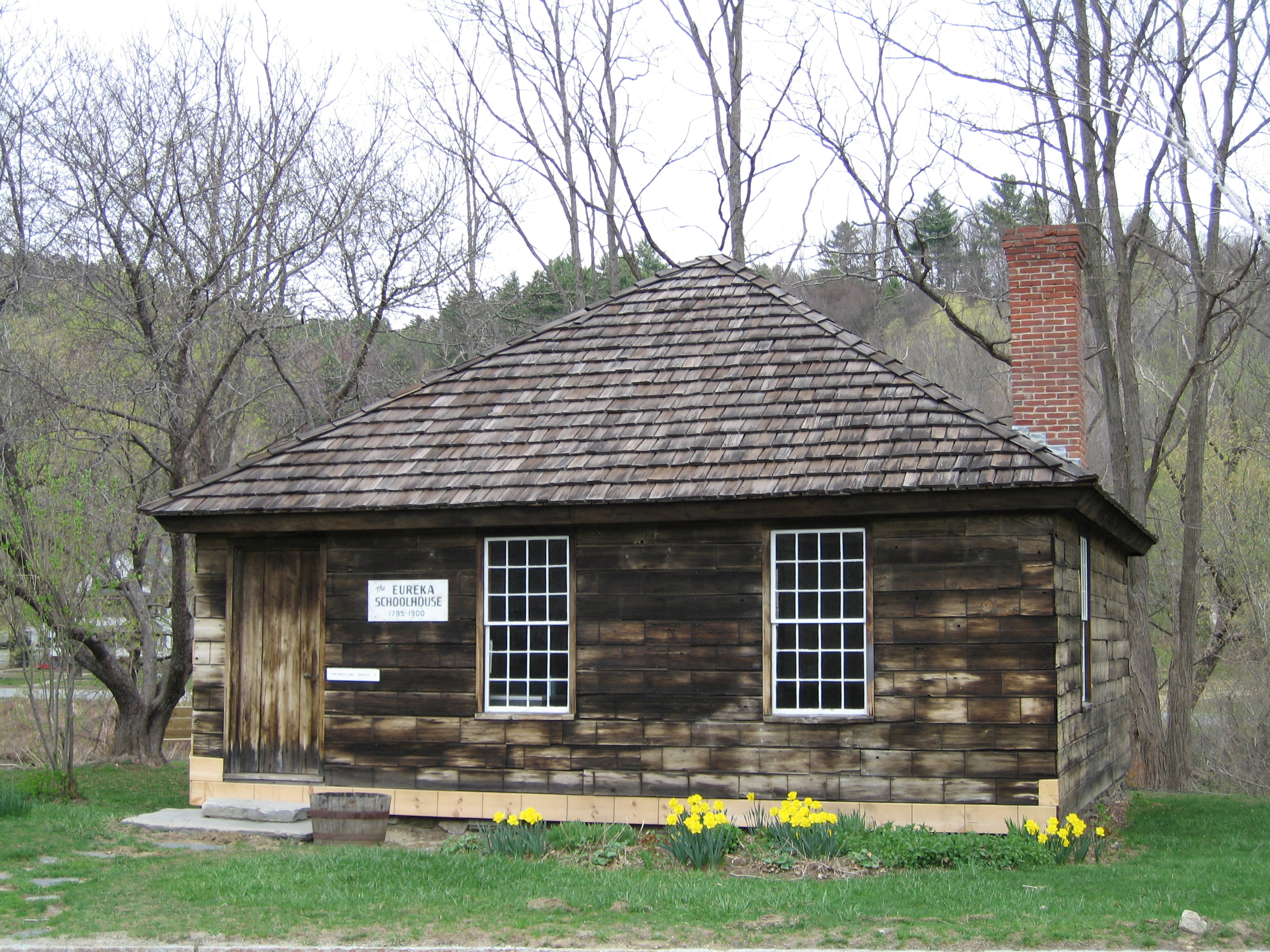 The Eureka School House in Springfield, Vermont, USA. Category:Images of Springfield Category:Images of Vermont